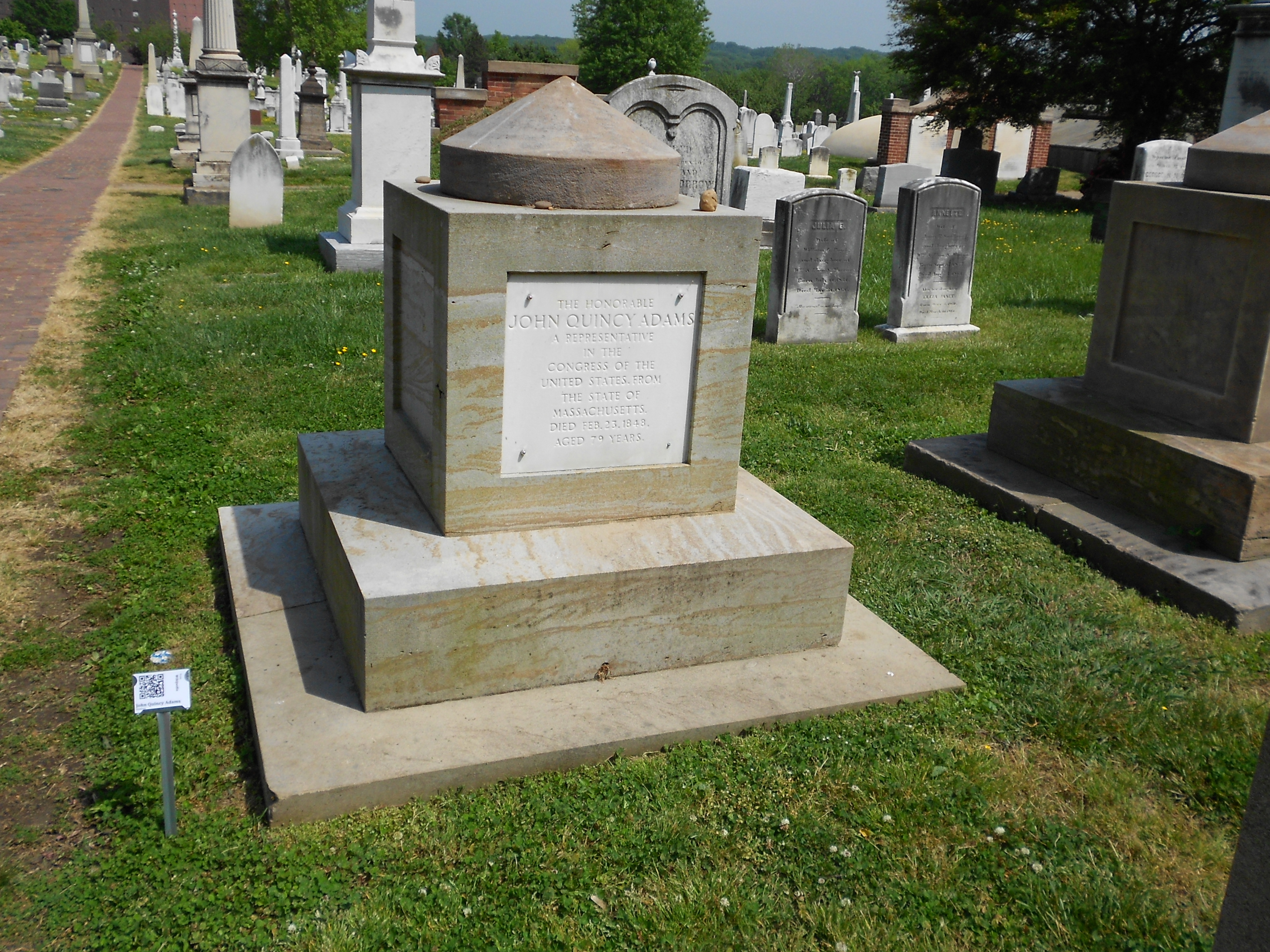 Cenotaph of John Quincy Adams at the Congressional Cemetery in Washington, DC. Note QR code.